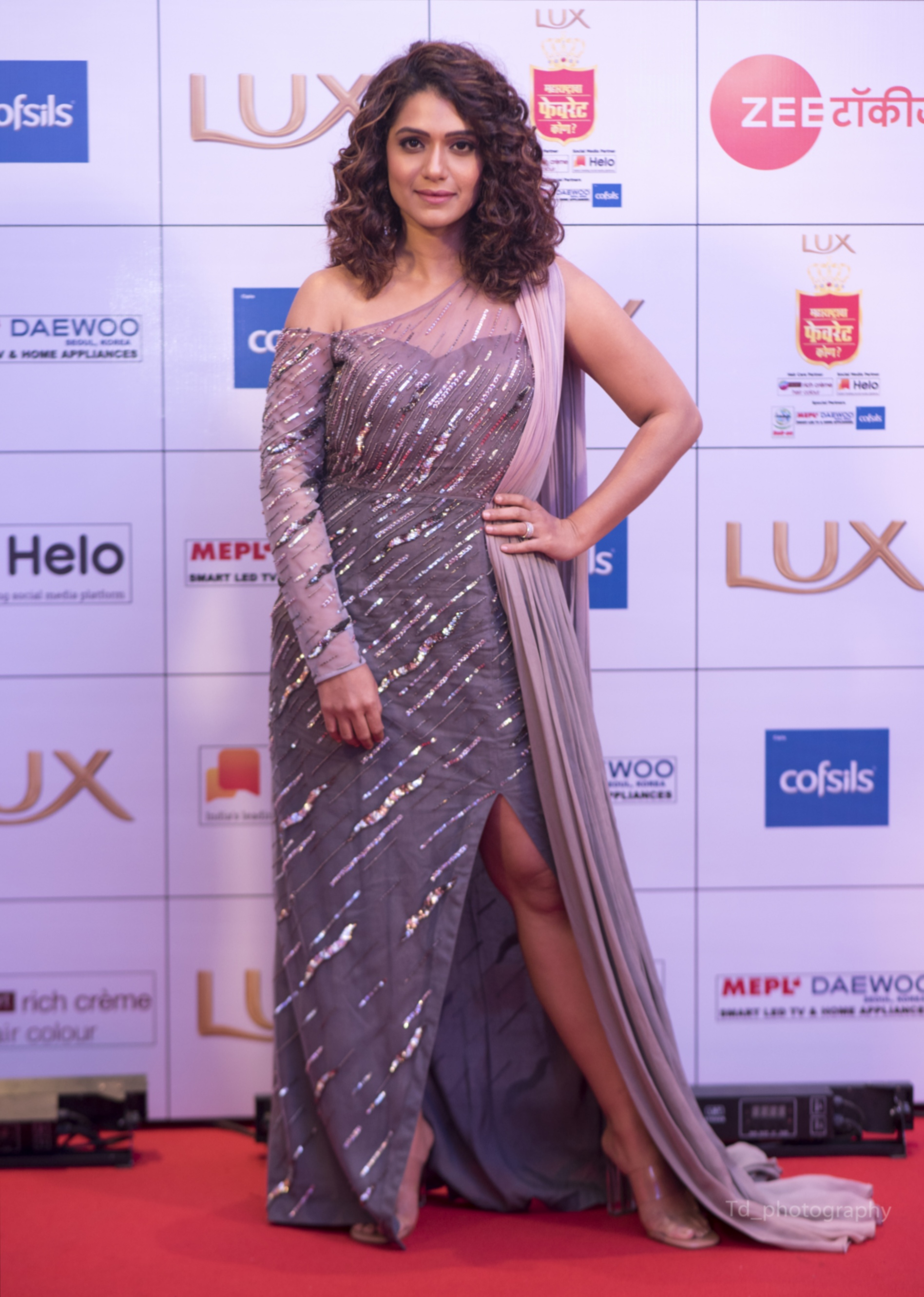 Urmilla Kothare at the 2019 'Maharashtracha Favourite Kon' Awards Show.